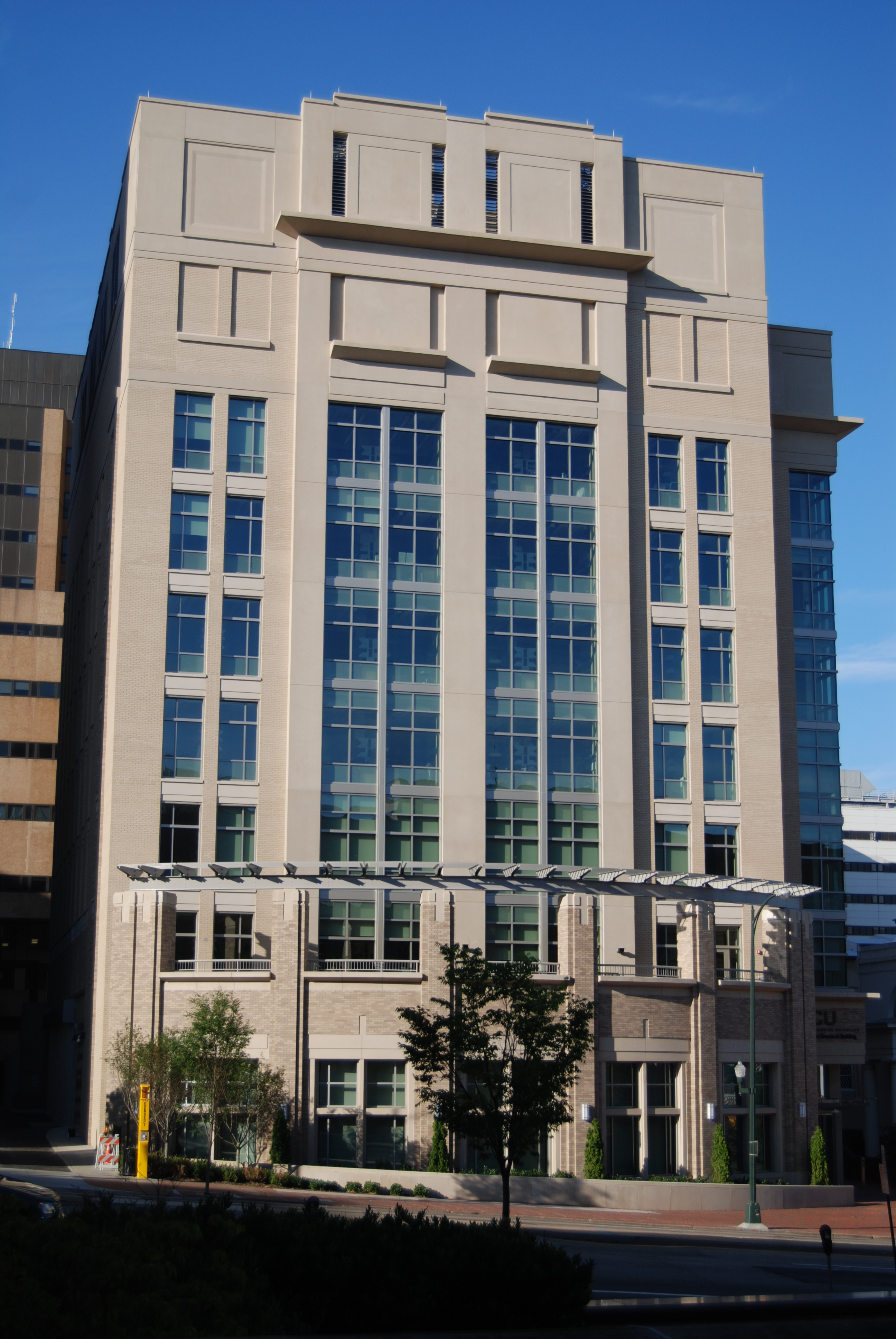 Medical Science Building MCV